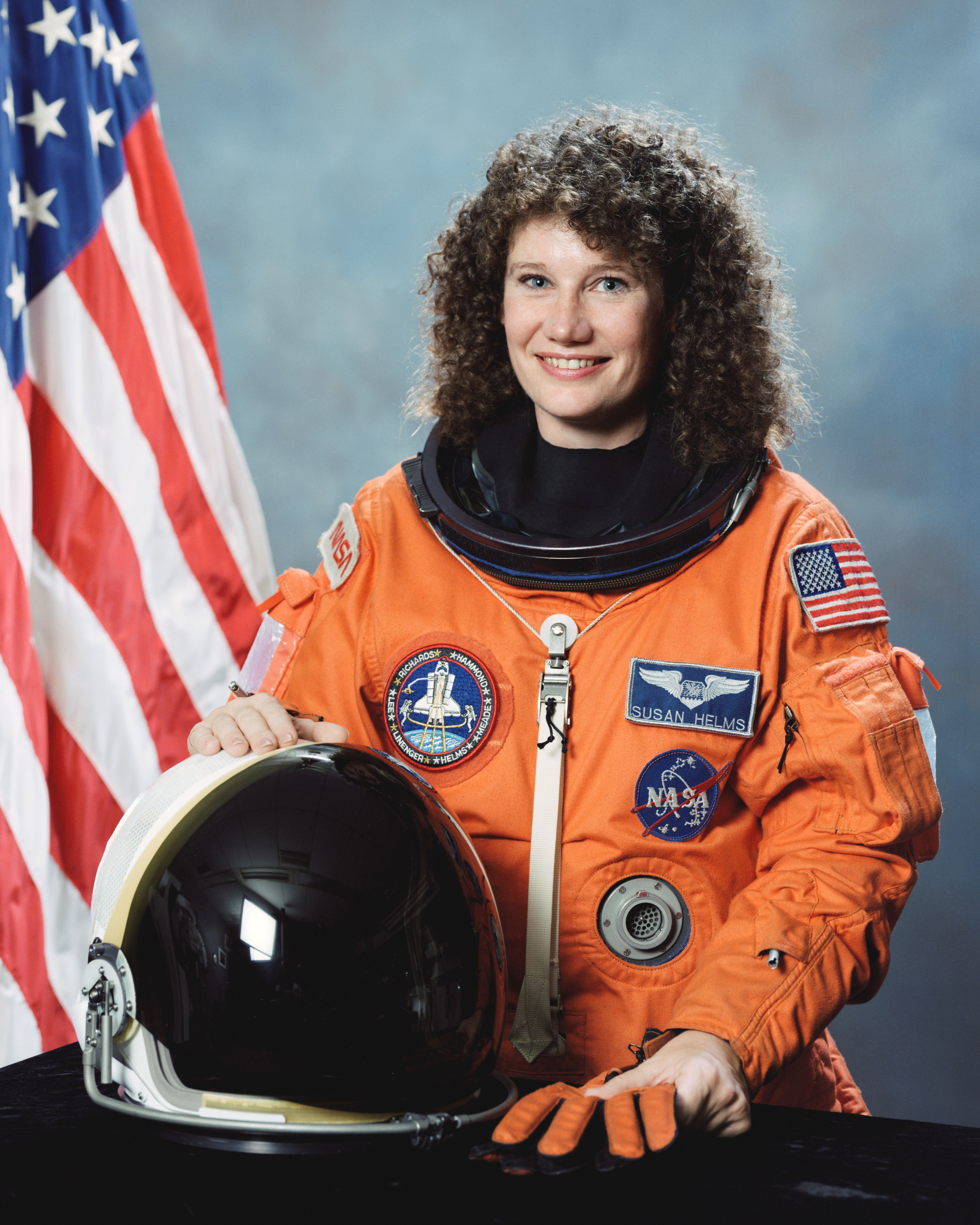 Sometimes we like to call those bright orange suits (Advanced Crew Escape Suits, ACES) pumpkin suits. Happy Halloween! (Sourced from the Source) A portrait of Astronaut Susan J. Helms taken on June 30th, 1994. Helms is a veteran of five spaceflights, has logged 5,064 hours in space, and co-holds the world record for the longest spacewalk at 8 hours and 56 minutes.